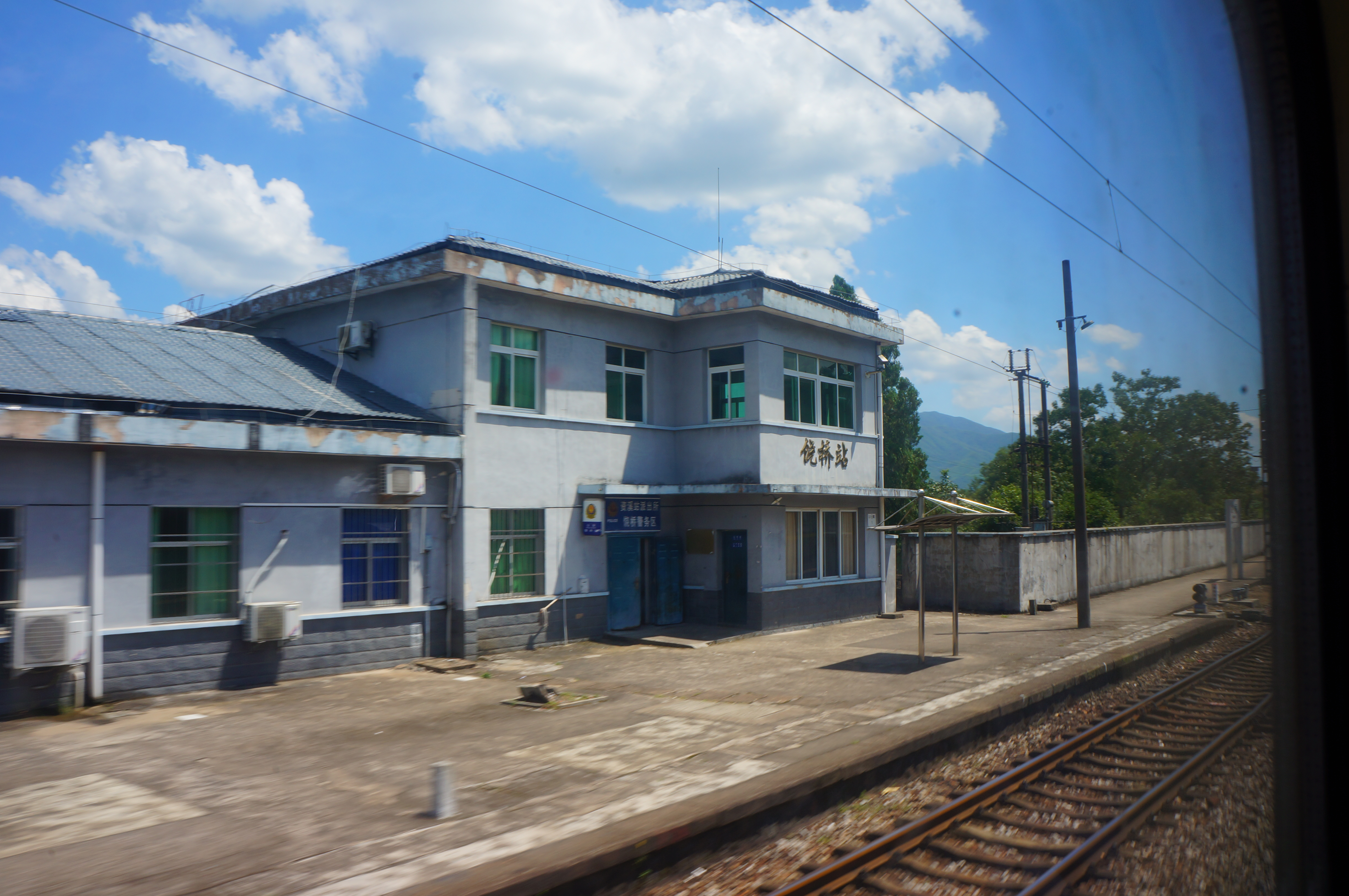 201806 Station Building of Raoqiao Station